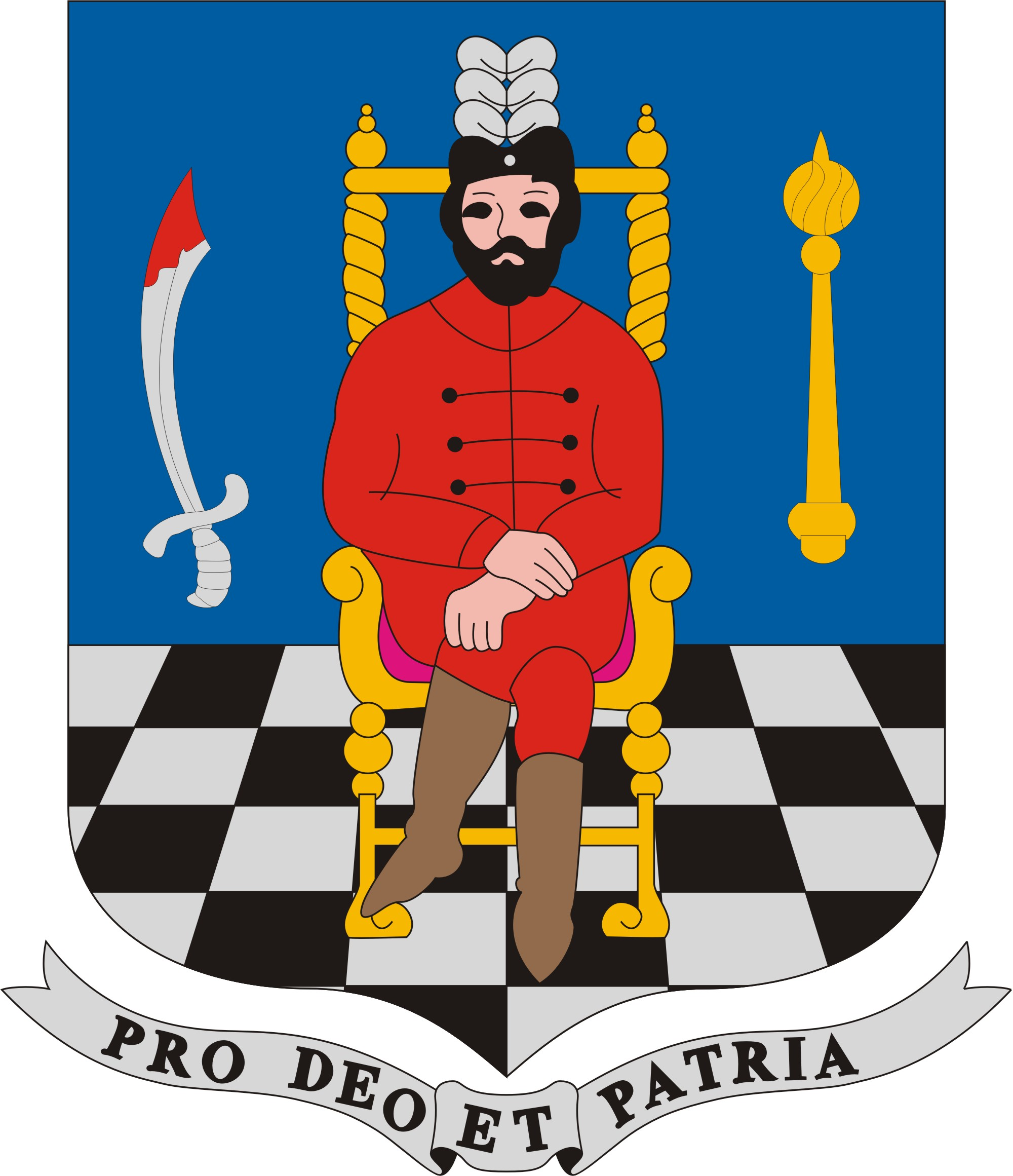 Coat of arms of Kismarja, Hungary